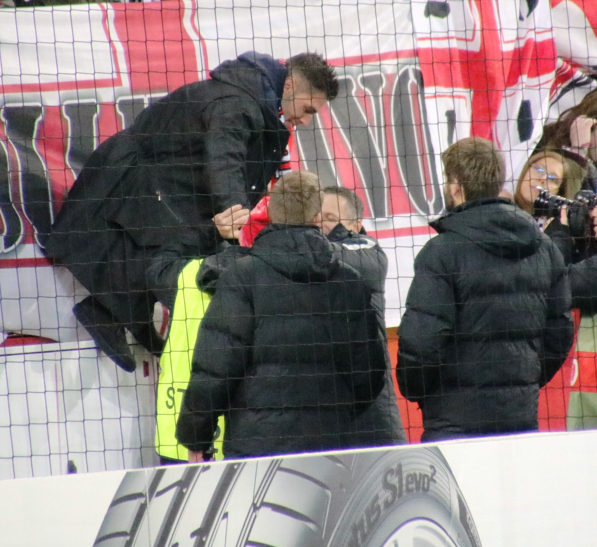 group stage round 5 Euroleague